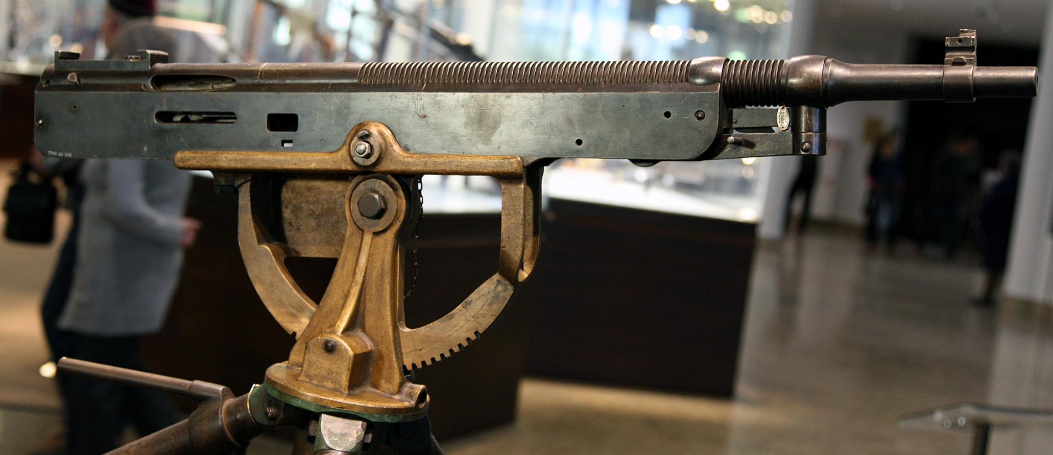 Colt–Browning M1895/14 machine gun – Tula State Arms Museum 2016